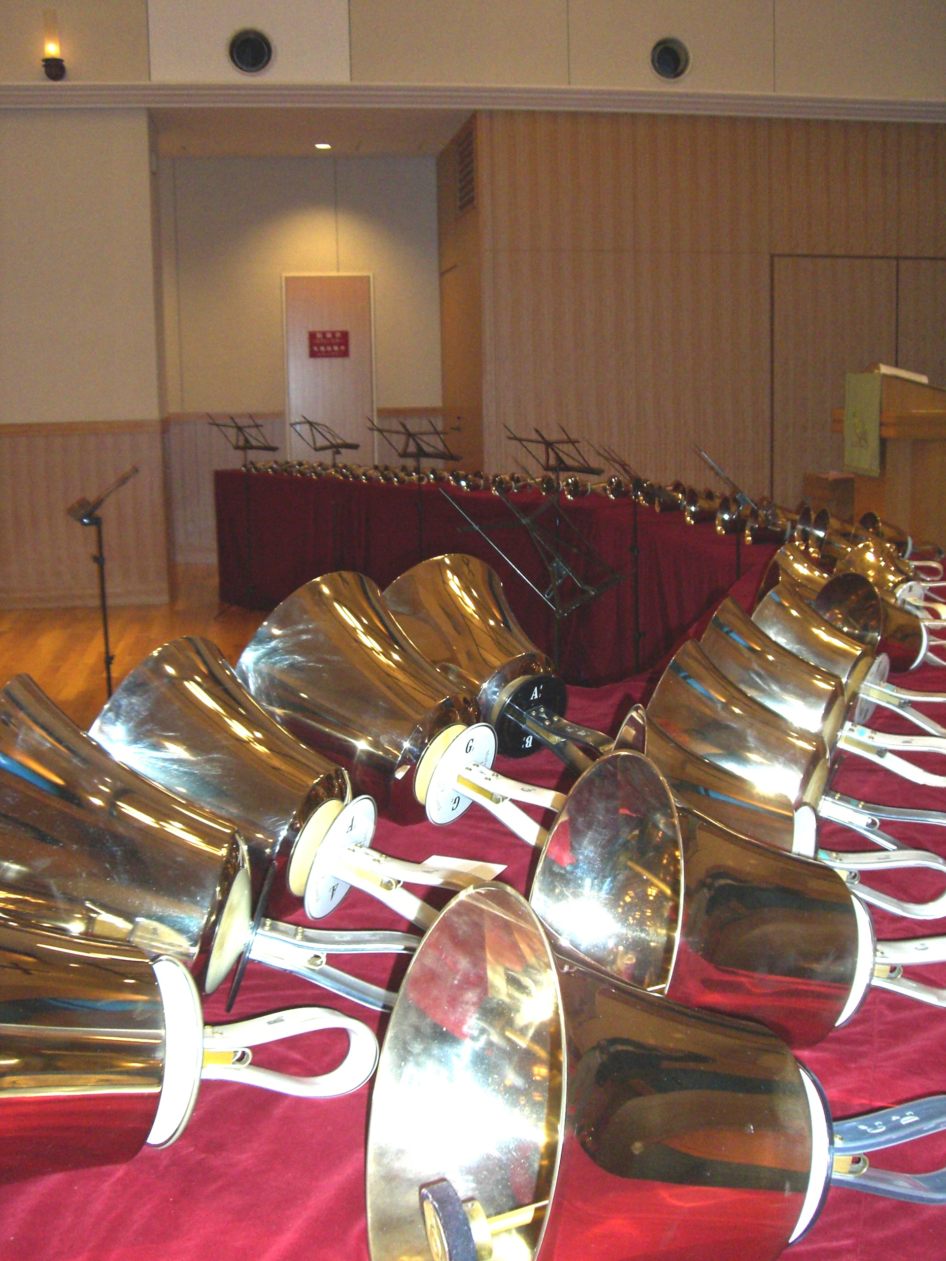 Handbells ready for a Handbell choire concert, Osaka, Japan.